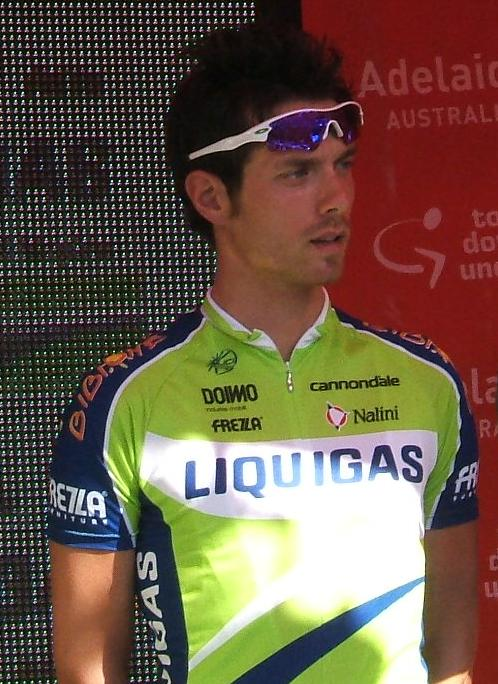 Named cyclist at the en:2009 Tour Down Under team presentation